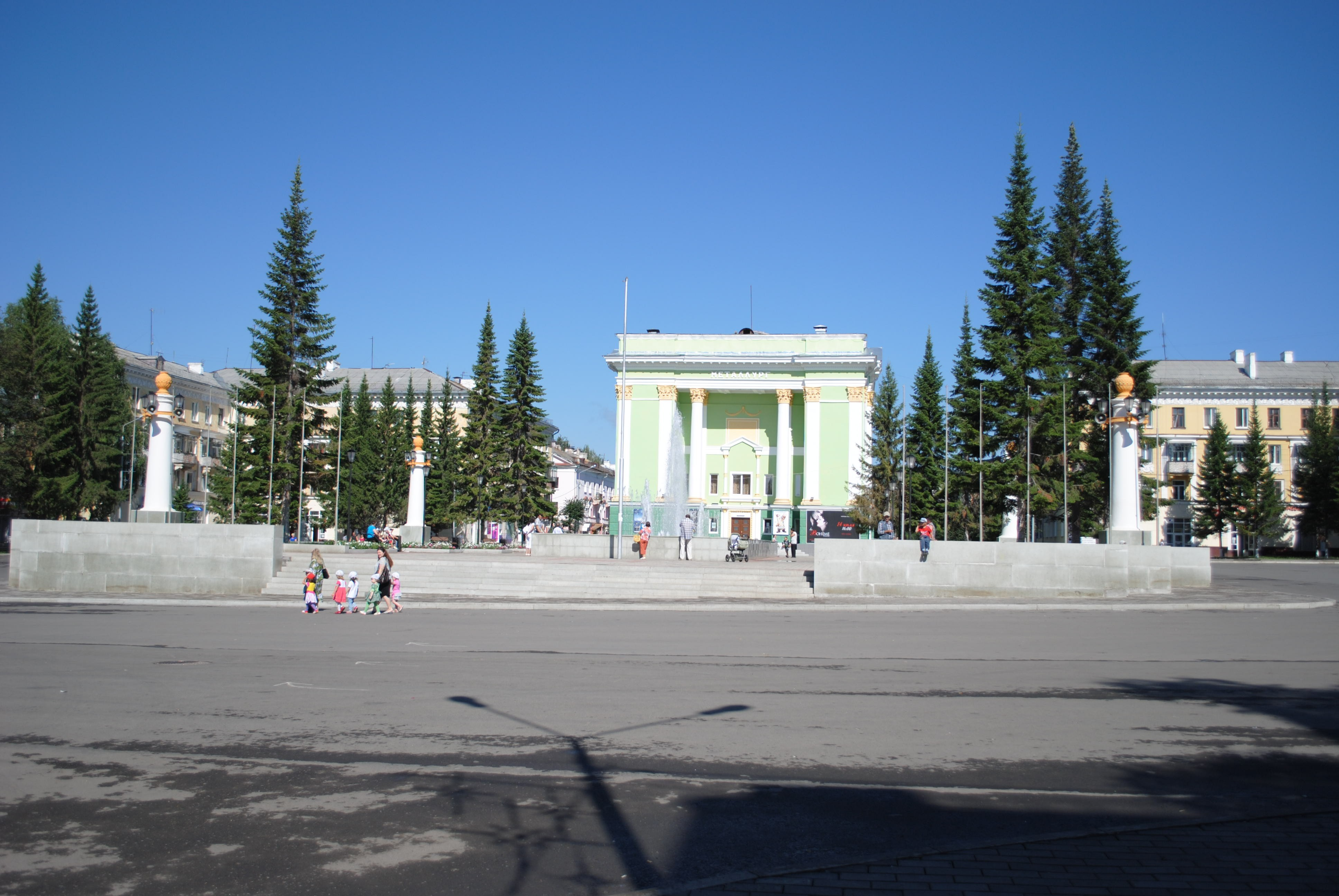 Beloretsk: Metallurgists squareБашҡортса: Белорет Металлургтдар Майҙан